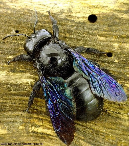 X.violacea individual in the island of Crete, Greece.